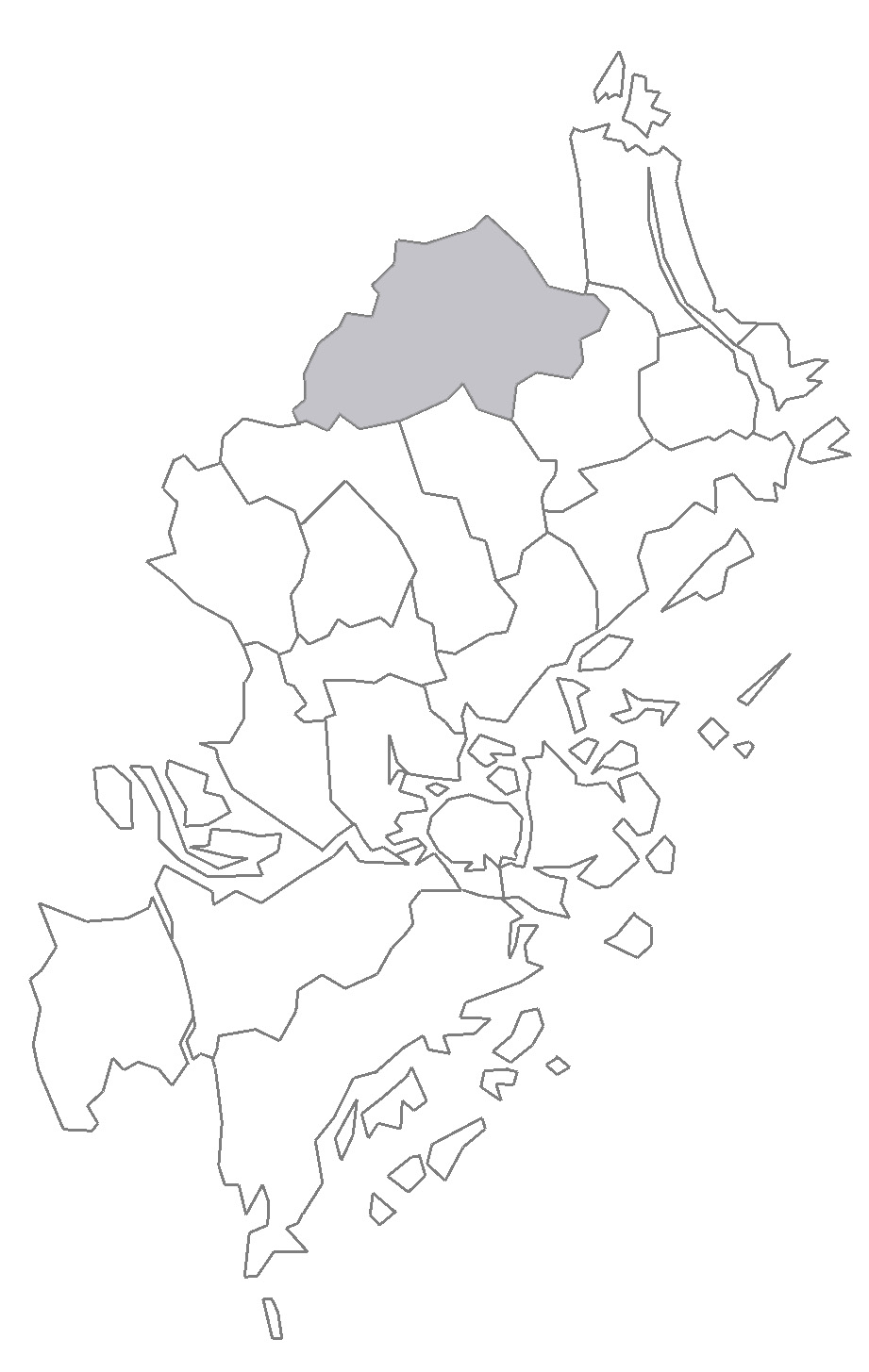 Map describing the location of Närding Hundred in Stockholm County, Sweden.